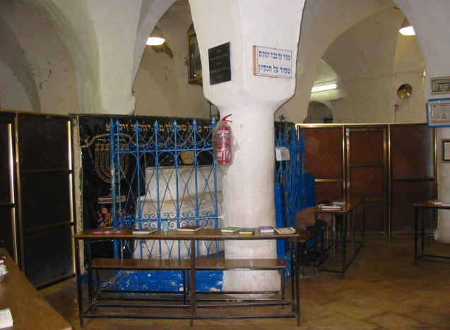 Mark of the grave of Rabbi Eliezer Ben Rabbi Shimon, son of Rabbi Shimeon Bar Yochai, author of the Zohar